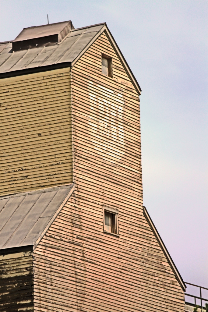 Parrish & Heimbecker grain elevator in Coaldale, Alberta currently 5 Suns Transloading